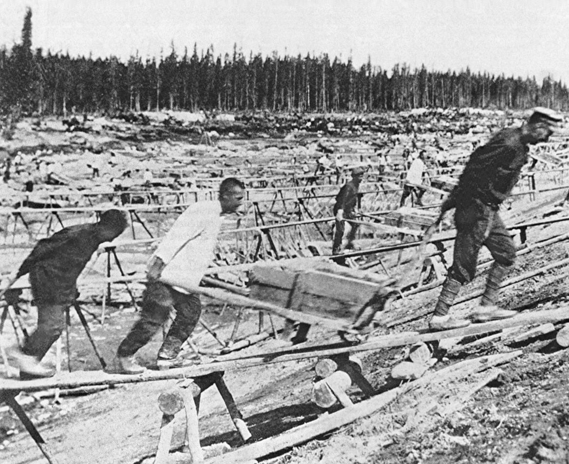 Prisoner labor at construction of Belomorkanal (White Sea Canal)